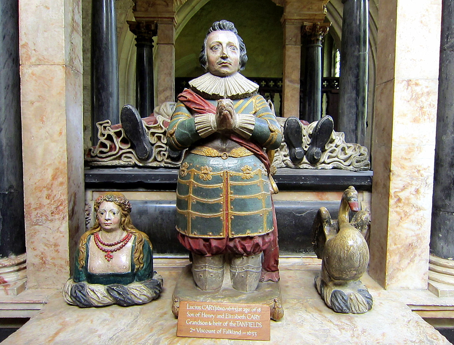 The Tanfield monument, the Church of St John the Baptist, Burford, Oxfordshire, England. Grave of Sir Lawrence Tanfield and his wife. They have remarkable sculptures over the grave, but they are lying down and we can only see their feet here. See File:Tanfield memorial, St John, Burford.JPG The mourner seen here is Lucius Cary, 2nd Viscount Falkland at age 18